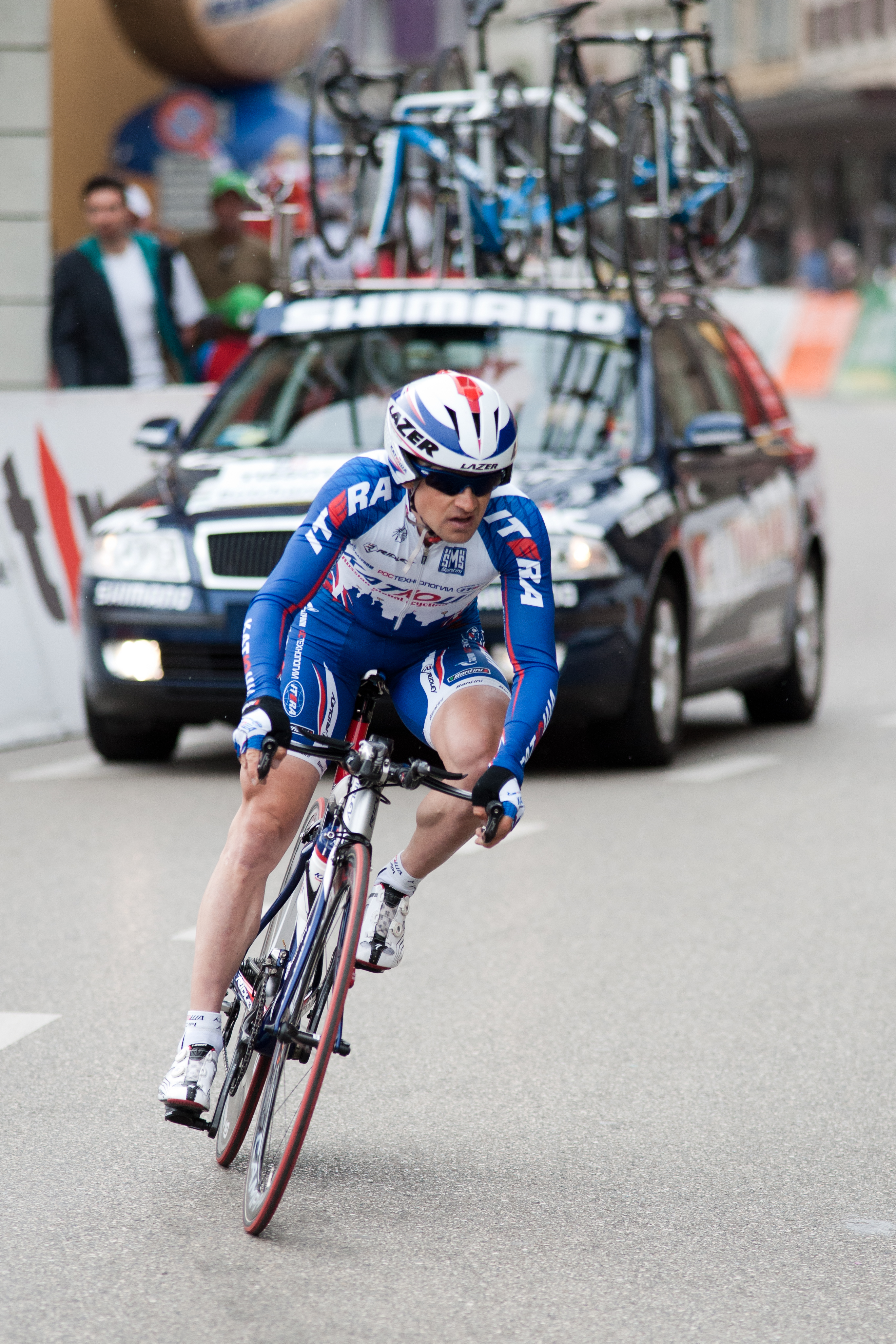 Alexandre Botcharov during the 3rd stage of the Tour de Romandie 2010.